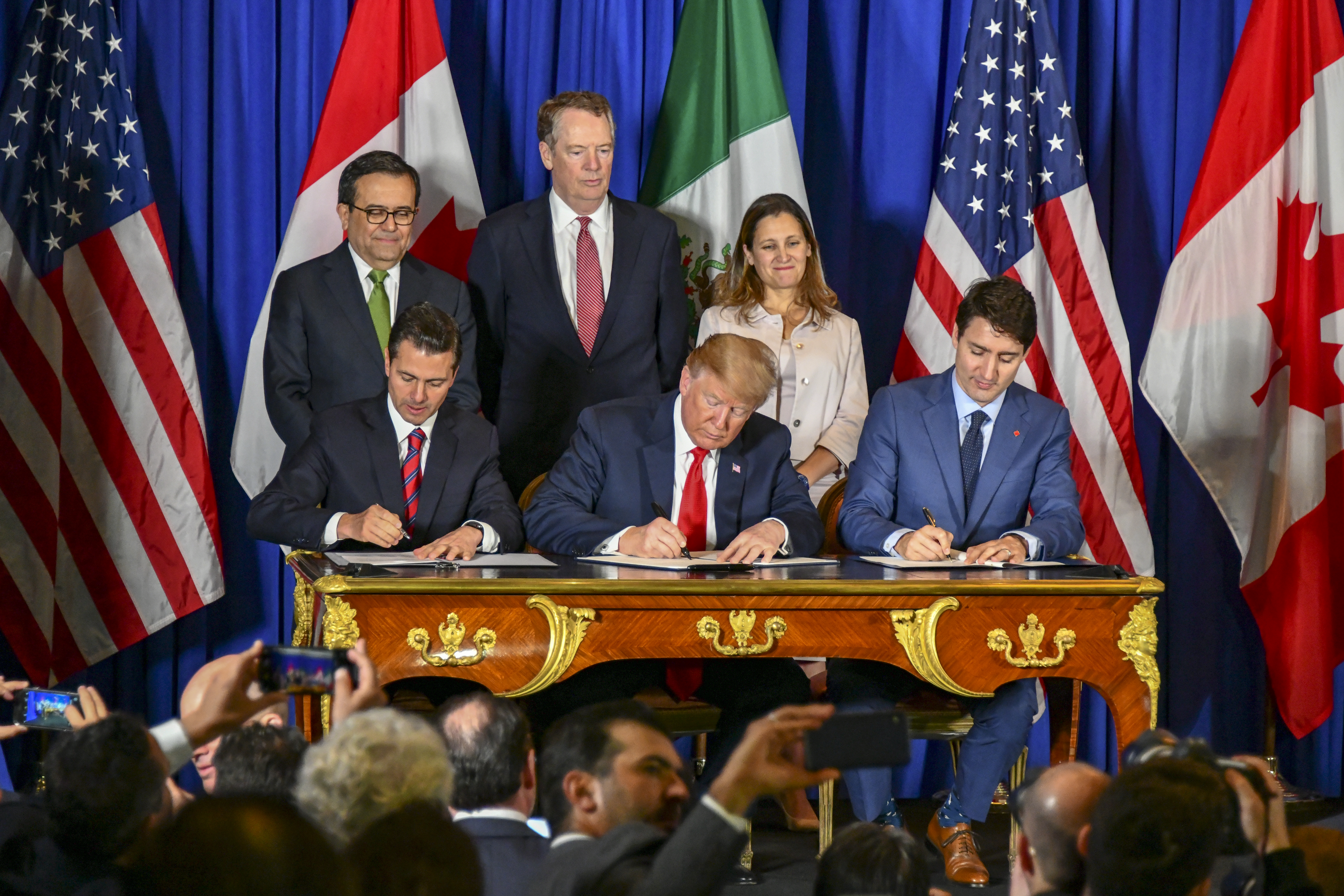 President Trump, Canadian President Trudeau, and Mexican President Enrique Peña Nieto sign the U.S.-Mexico-Canada trade agreement during a ceremony in Buenos Aires, on the margins of the G-20 Leaders' Summit on November 30, 2018. [State Department photo by Ron Przysucha / Public Domain]